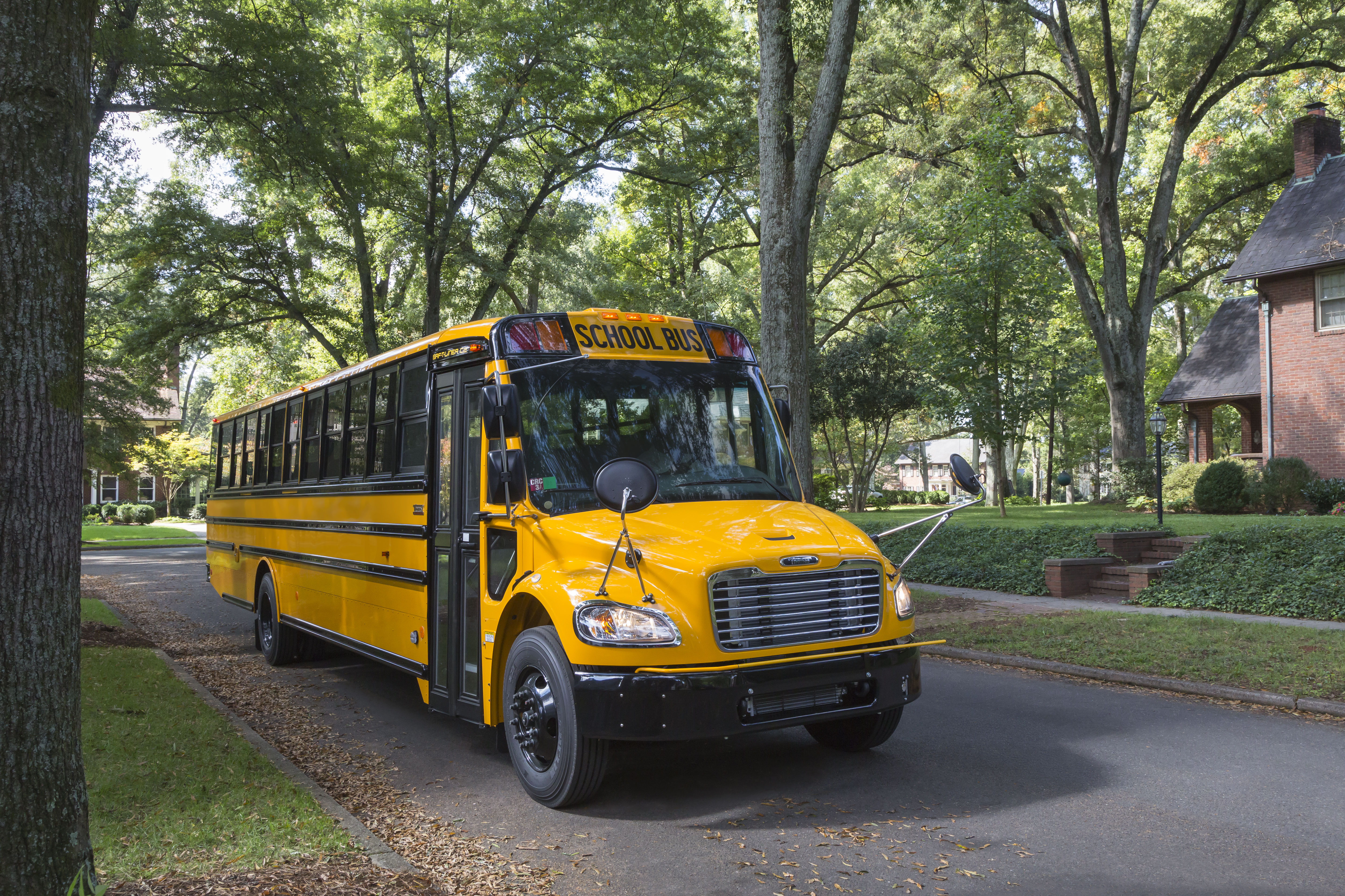 Thomas Built Buses Saf-T-Liner C2 School Bus